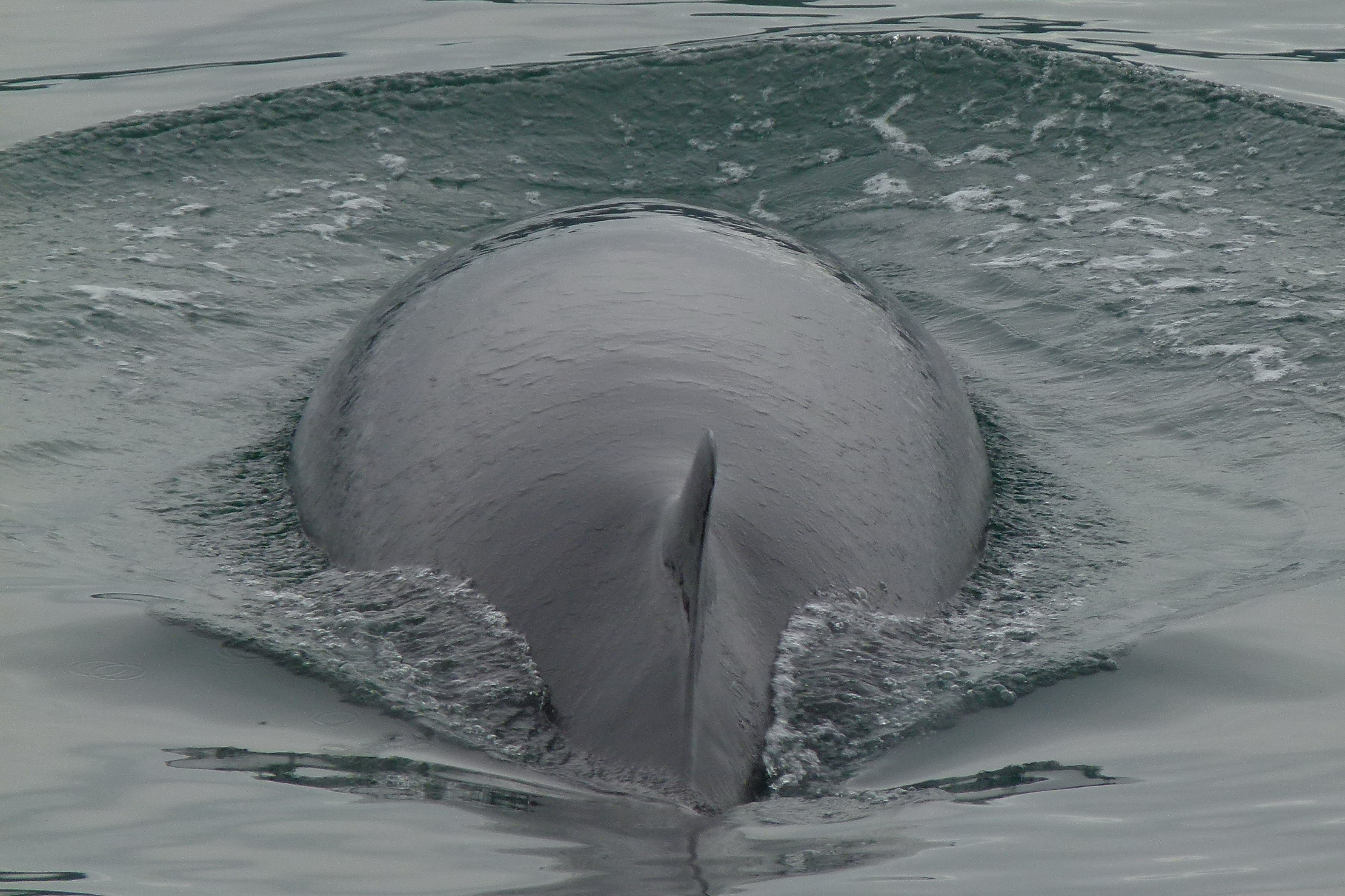 Whale near Tadoussac, Canada